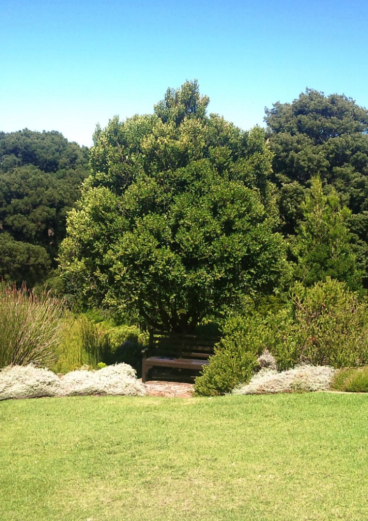 Cassine peragua